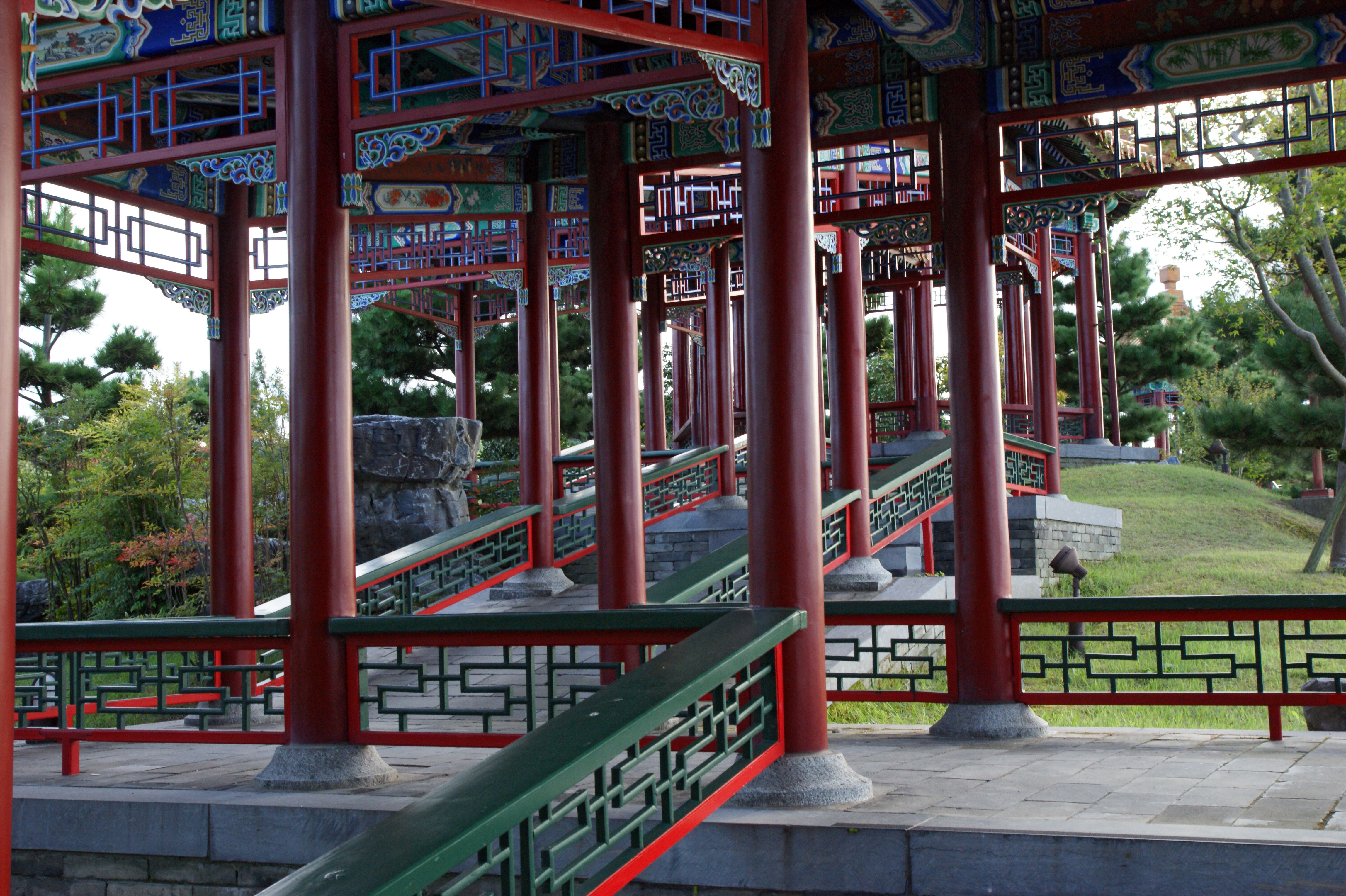 Enchoen in Yurihama, Tottori prefecture, Japan